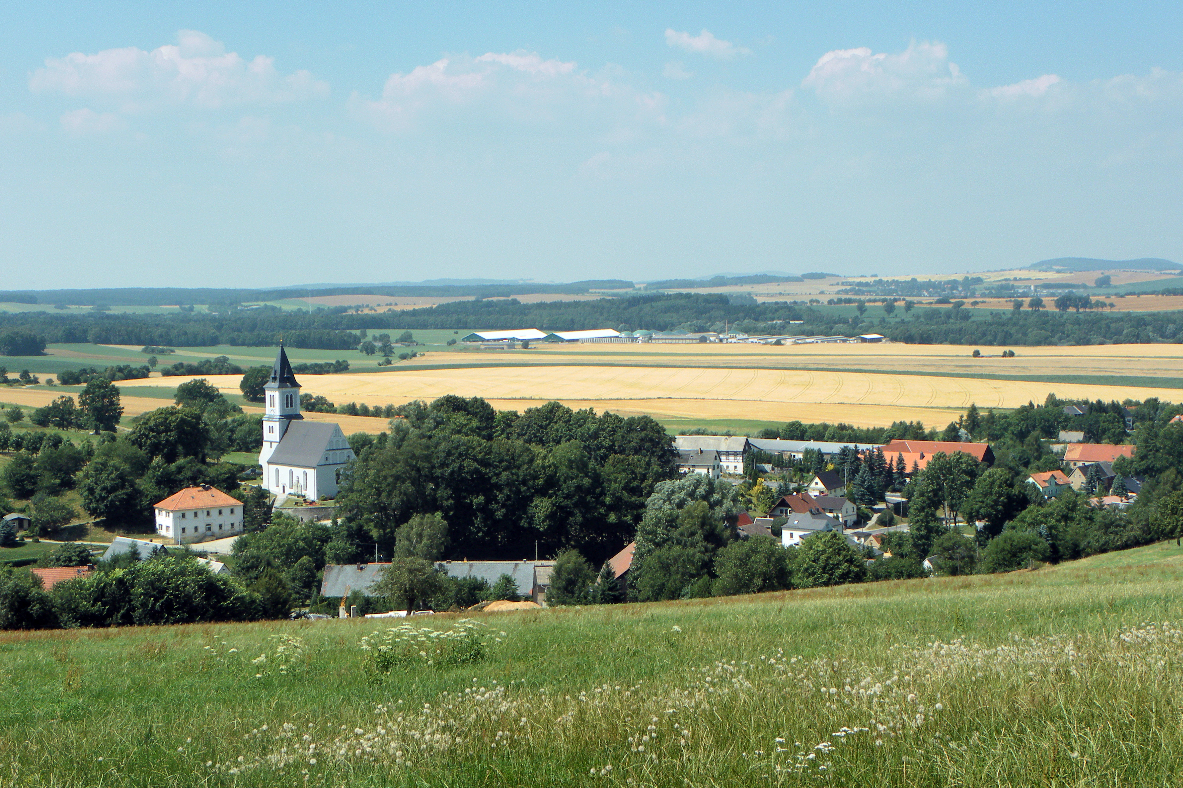 View on thr village Großdrebnitz, part of Bischofswerda, with its church.